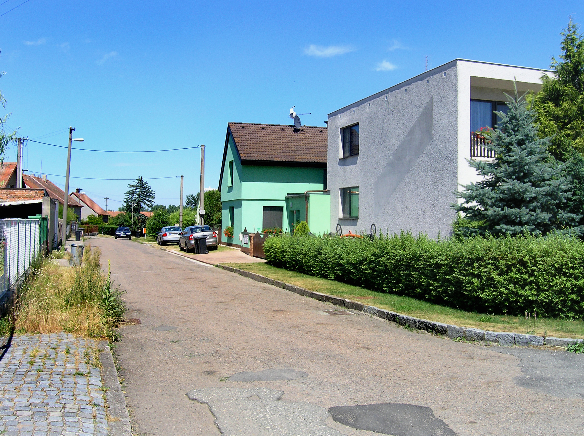 Westa part of Opočínek, part of Pardubice, Czech Republic